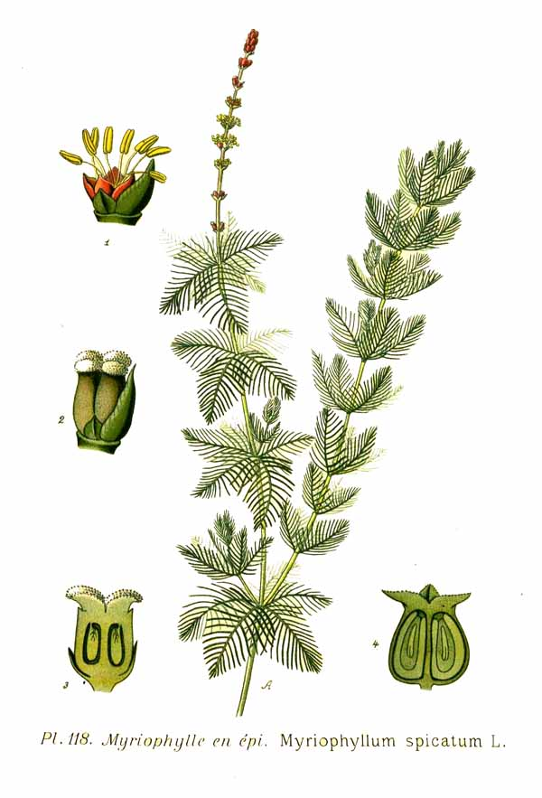 Myriophyllum spicatum L.